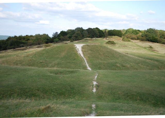 The Devil's Humps. One of the group of bell barrows that form the Devil's Humps seen from the top of another.